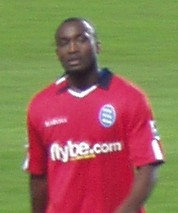 Birmingham City F.C.'s Côte d'Ivoire international defender Olivier Tebily at the end of the 2005 FA Cup defeat to Chelsea F.C.